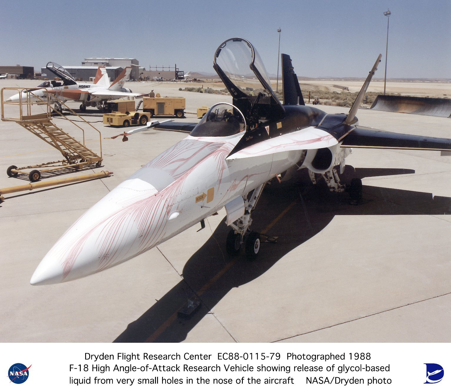 A glycol-based liquid, released through very small holes around the nose of an F/A-18 flown by NASA's Dryden Flight Research Center, Edwards, California, for its High Alpha Research Vehicle (HARV) program, aids researchers in flow visualization studies. This photograph, taken postflight, shows the airflow pattern at about 30 degrees angle of attack. The program was conducted jointly with NASA's Langley Research Center. NASA Identifier: NIX-EC88-0115-79